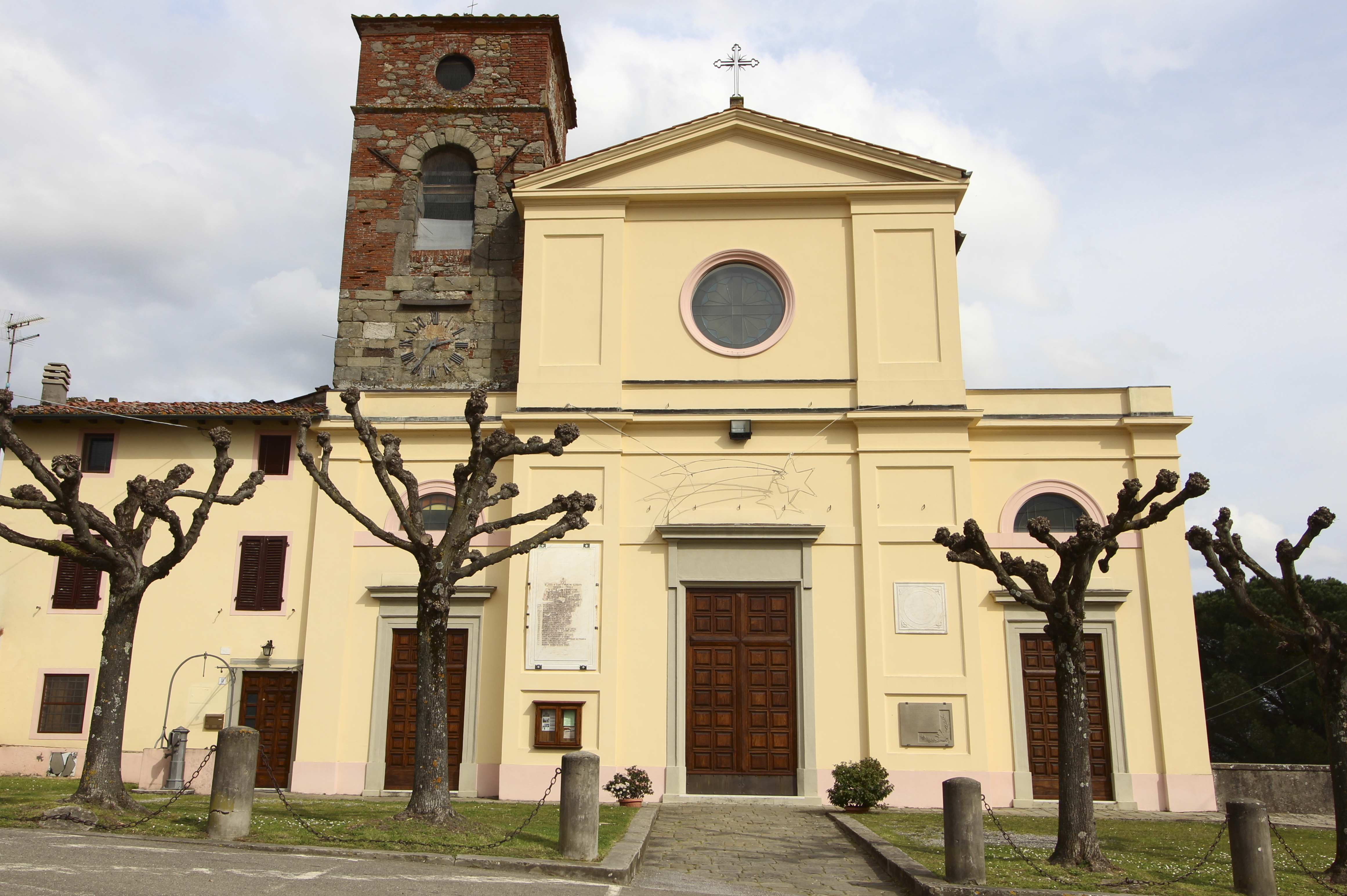 Church Santa Maria Assunta, Gragnano, hamlet of Capannori, Province of Pisa, Tuscany, Italy